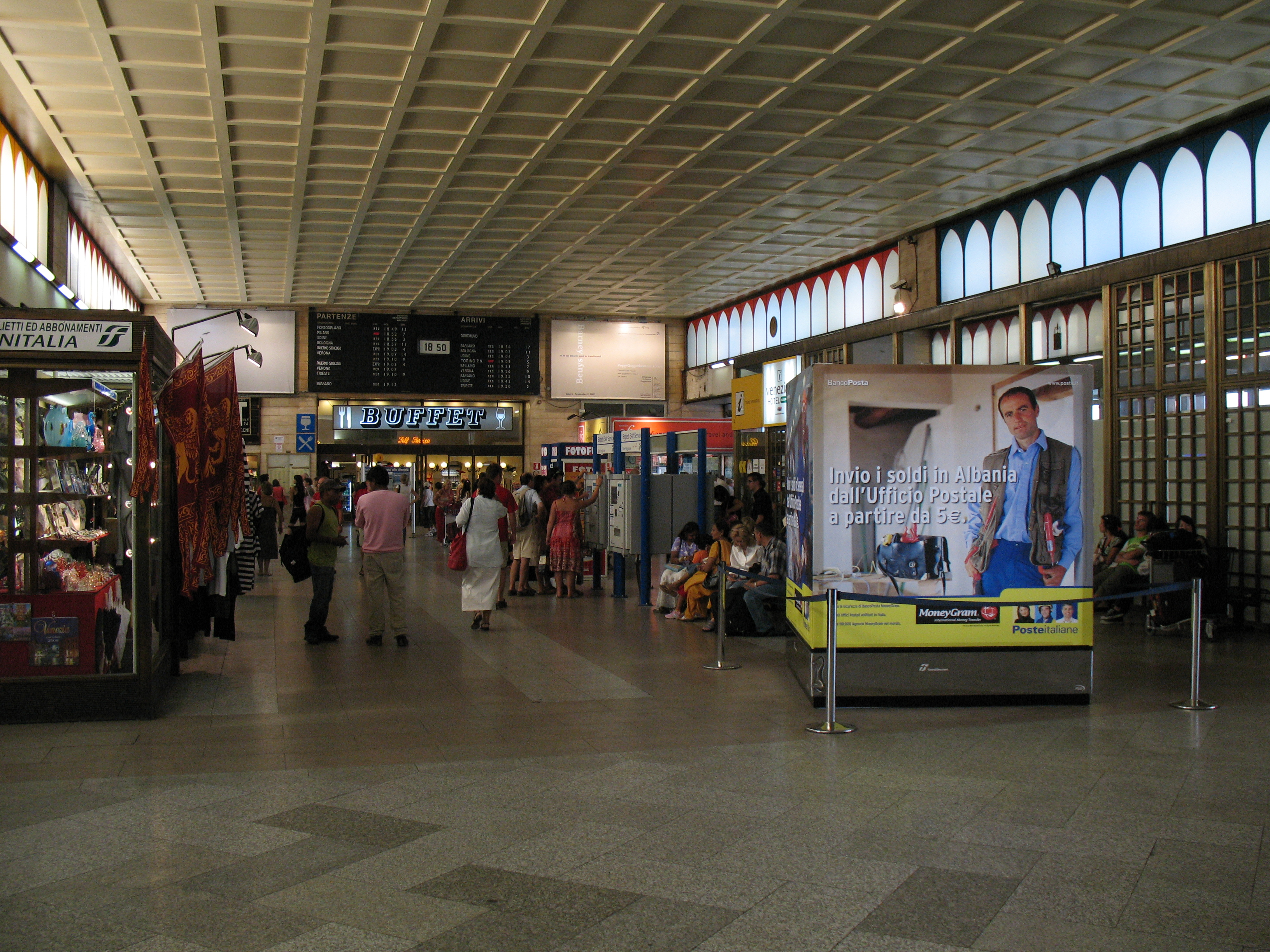 The hall of the station of Venezia Santa Lucia (amin station of Venezia). 27.8.2007. Canon Powershot A630